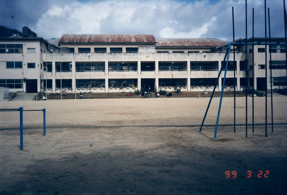 This is the old building of Iwazono elementary school in Ashiya, Hyogo, Japan